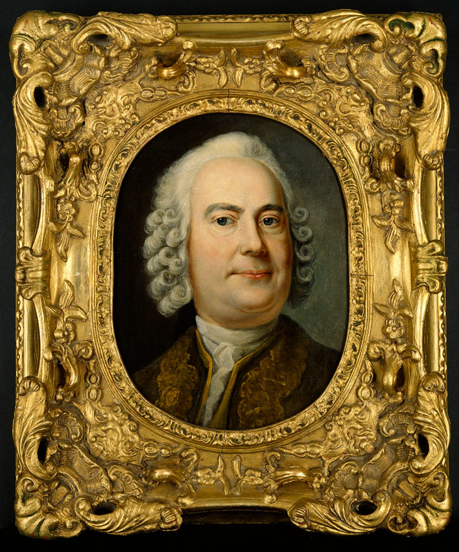 Portrait of Carl Heinrich Graun (1704-1759)